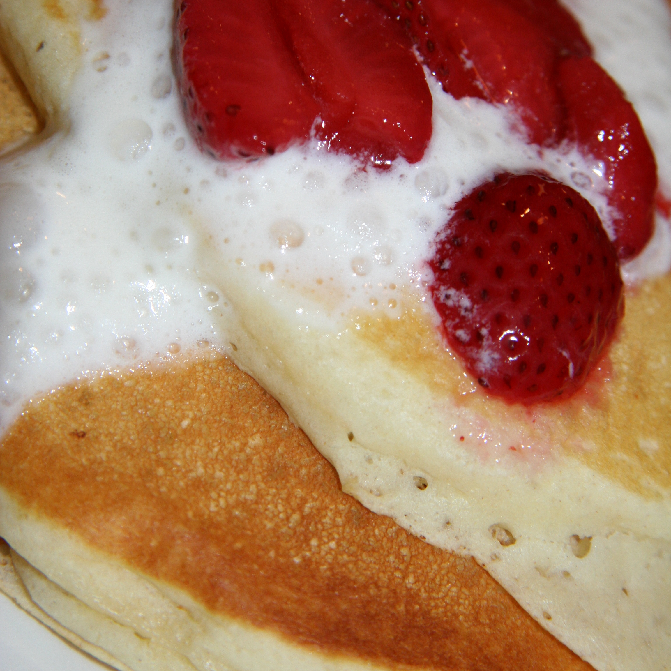 Pancakes topped with strawberries and cream